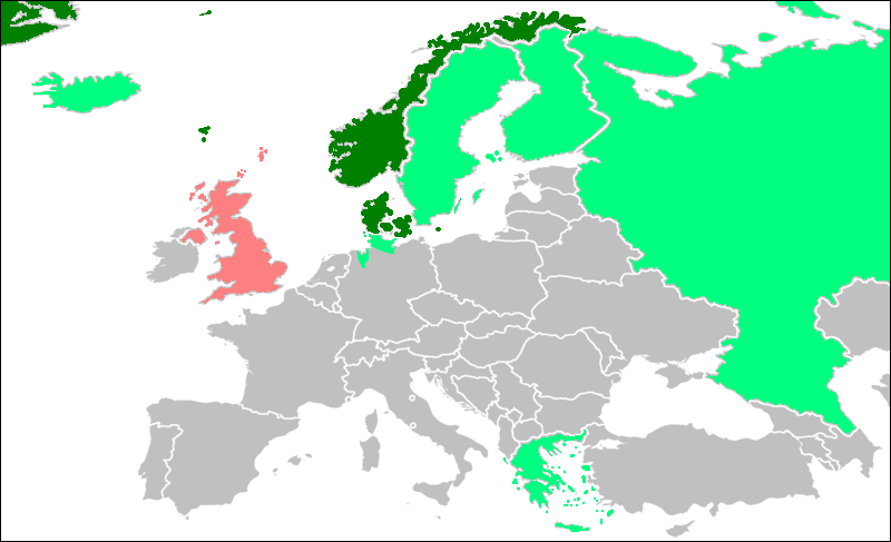 Map of oldenburg dynasty